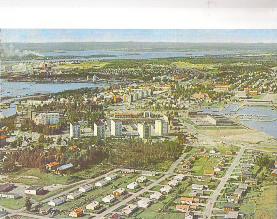 Swedish city Piteå 1968